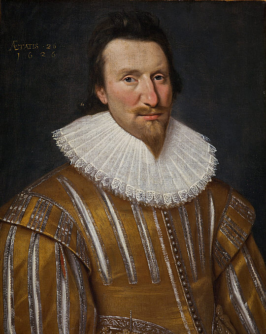 James Erskine was the eldest son of John Erskine, Lord High Treasurer of Scotland. Sometime before 1617 he married Mary Douglas, Countess of Buchan, and assumed the title of Earl of Buchan. Like his father, James lived at court in London. He became a Lord of the Bedchamber to Charles I, a position in the royal household held by around twelve noblemen who would attend to the monarch in turn for a week at a time. Duties included assisting the king when dressing, waiting on him when eating in private and guarding access to his private quarters. This 1626 portrait shows the Earl of Buchan in fashionable court dress, wearing a winged gold doublet that is sewn with braid, and a ruff edged with fine lace.